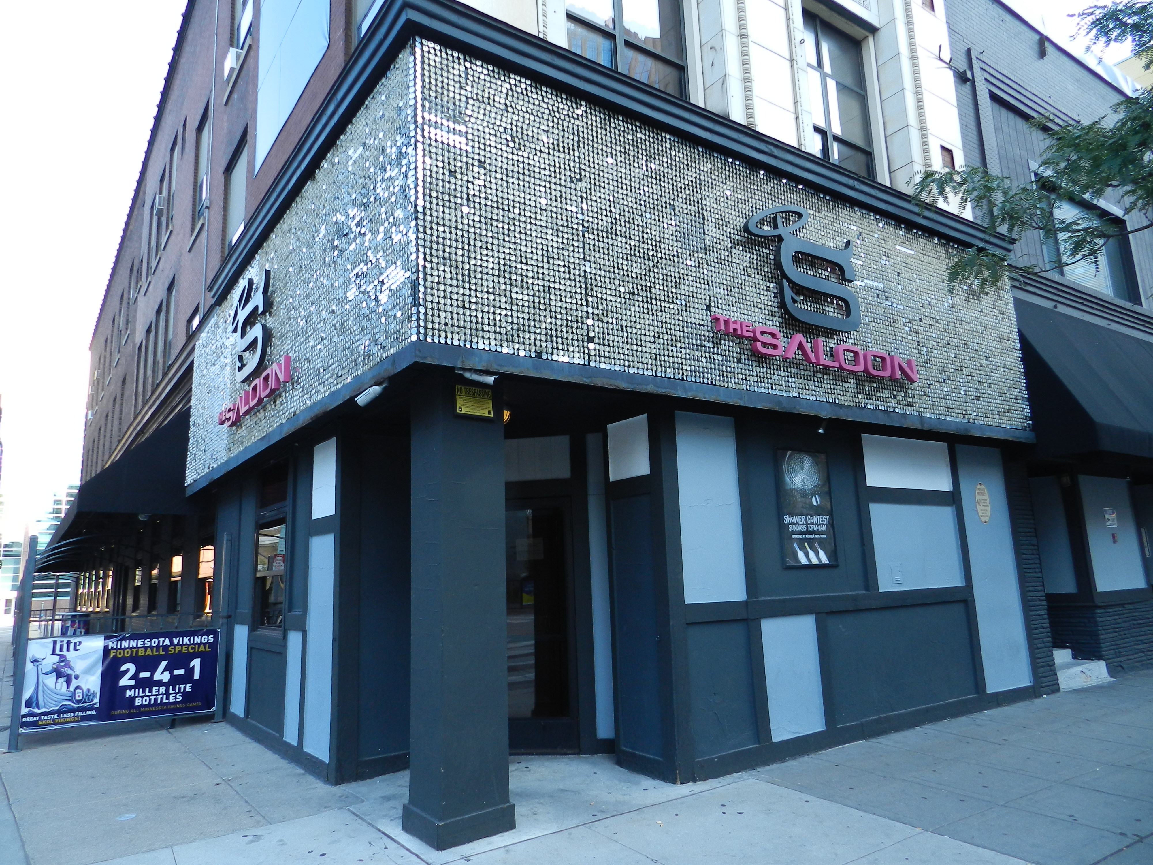 Photograph of the entrance to The Saloon, Minneapolis.